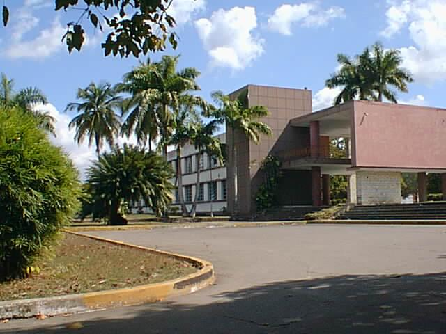 Admin building at University of Las Villas